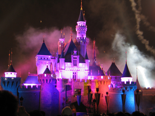 Hong Kong Disneyland castle by Dave Q